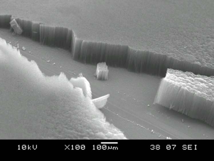 Nanotubes created in nano- laboratory of Institute of Mechatronics and Information Systems, Lodz Technical University, Poland